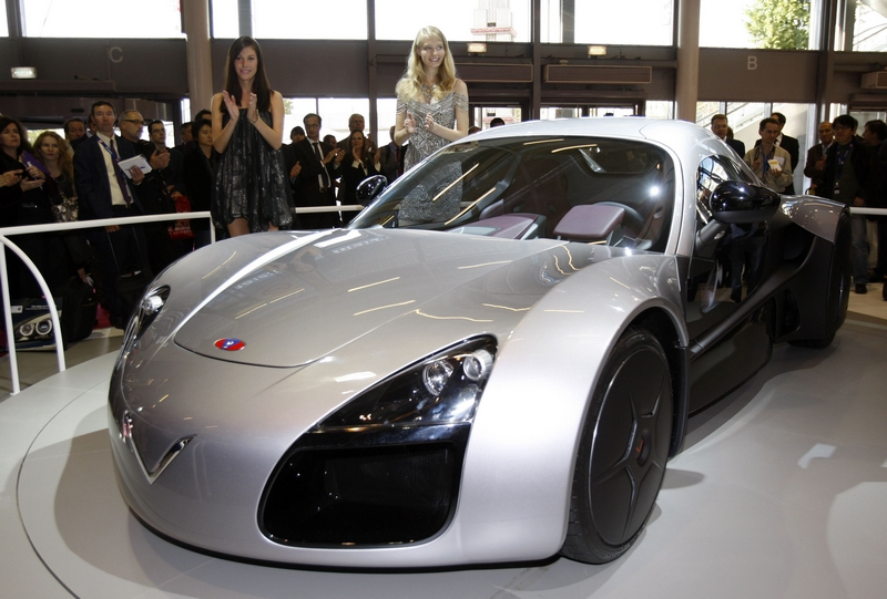 Venturi Volage at 2008 Paris Motor Show